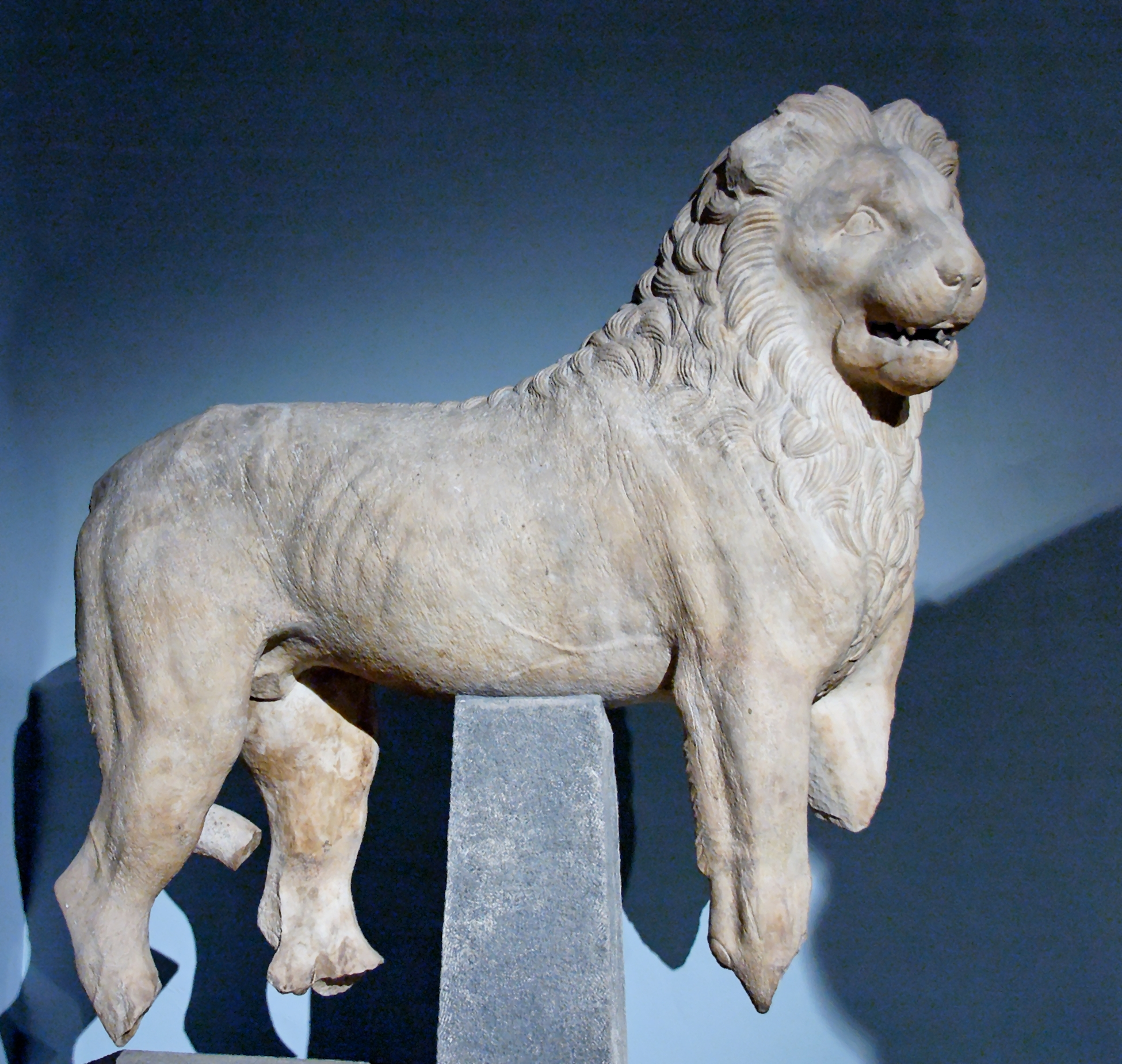 Lion, probably from the roof of the podium of the Mausoleum at Halicarnassos. The rump bears the Greek letter Π, which has been interpreted as the signature of Praxiteles.